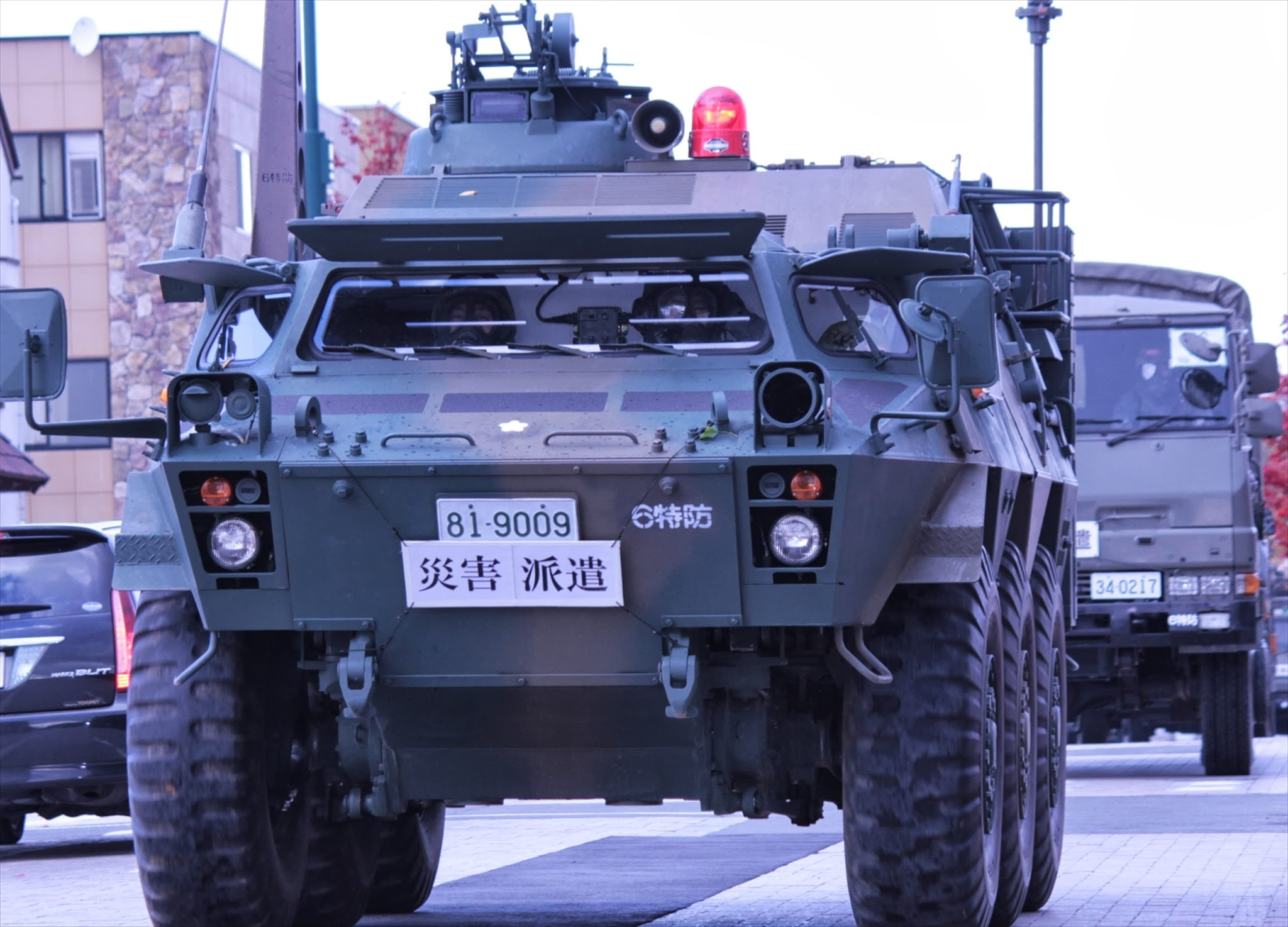 Title 化学防護車（装輪）（Ｂ）24.11.20 ６Ｃｍｌ・山形県国民保護共同実動訓練 山形駅西口へ到着！.JPG Album 装備 化学防護車（装輪）（Ｂ）（山形県国民保護共同実動訓練・第６特殊武器防護隊）